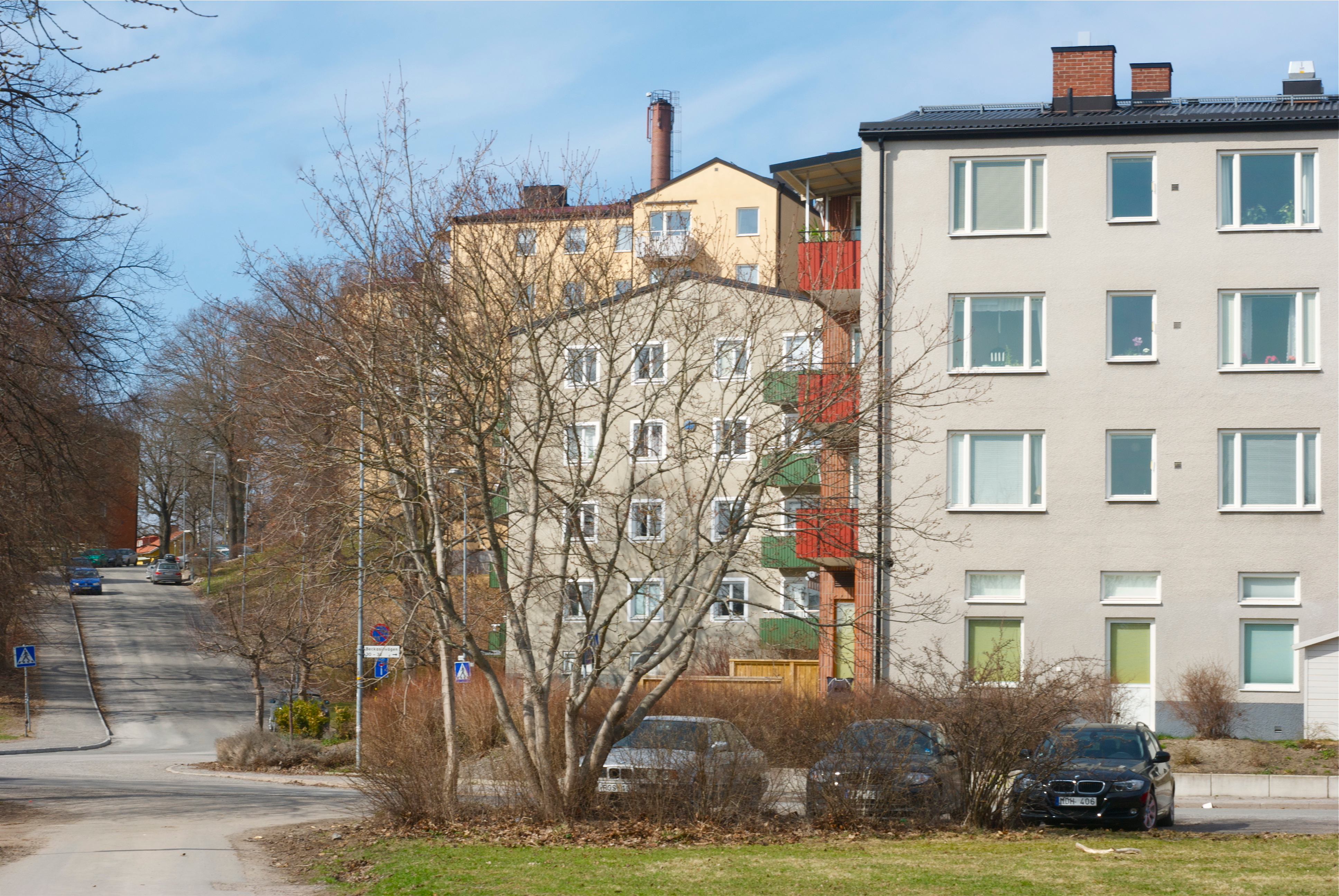 Buildings in Saltängen, Nacka. Built 1940-50s.